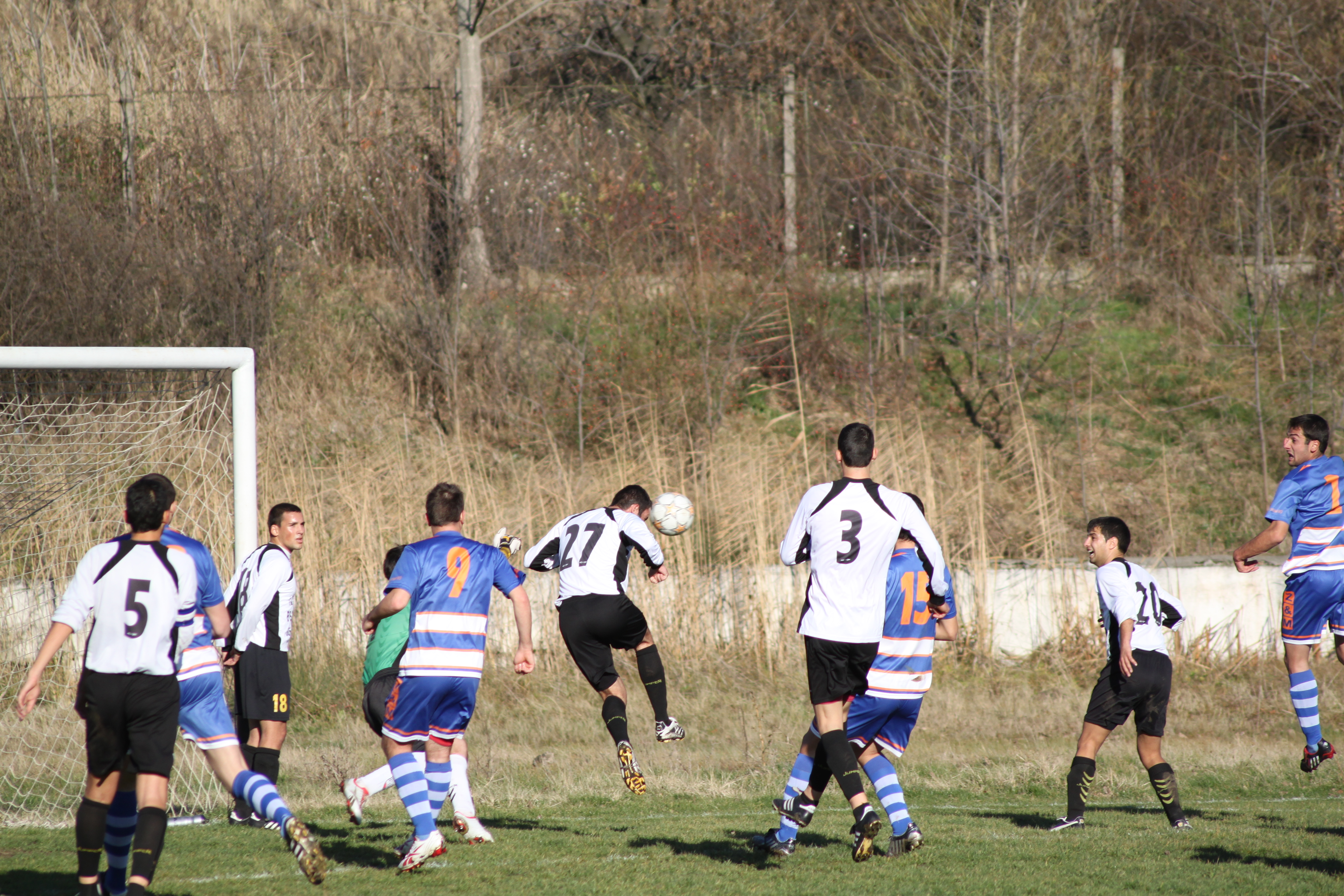 Minior (Bobov dol) - Slivnishki geroi (Slivnitsa) 1-2, 21-11-2010